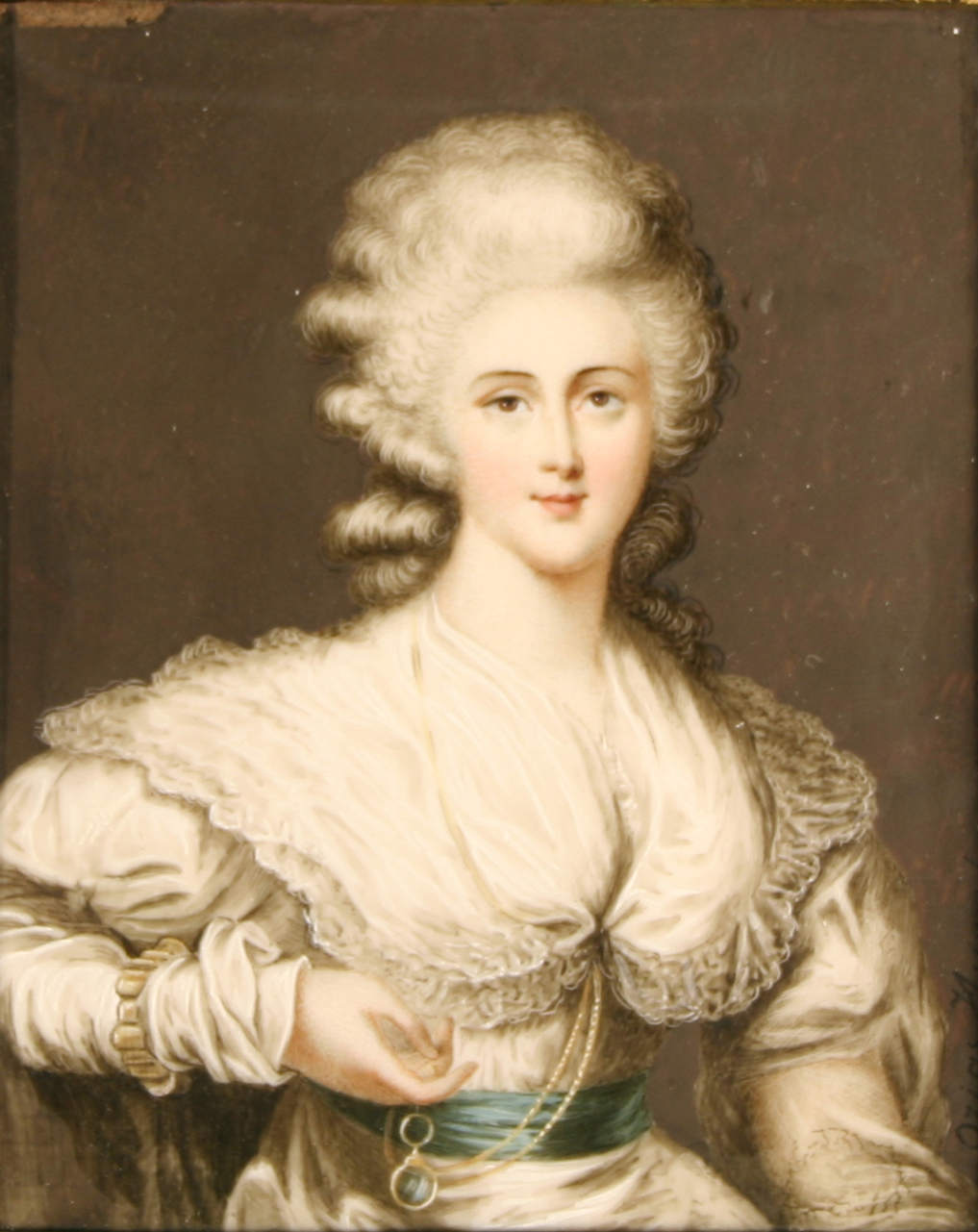 This portrait was misidentified as the subject's daughter, Lady Sarah Sophia Fane, later Viscountess Villiers, and then Countess of Jersey. It is probably a portrait of her mother, the Countess of Westmorland, who was also named Sarah. The error is apparently written on the back of the item itself, as cited in the linked source, which is an art sale catalog that identifies the sitter as "Sarah Villiers, Viscountess of Jersey" (no such person ever existed). The date of the portrait is given as 1786, which is probably correct based on clothing style. Sarah Fane, the daughter, was born in 1785, and the portrait looks similar to other portraits of Lady Westmorland, who died in 1794.